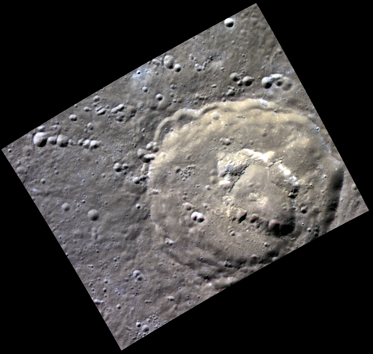 Date acquired: October 12, 2014 Image Mission Elapsed Time (MET): 55468134, 55468126, 55468130 Image ID: 7233114, 7233112, 7233113 Instrument: Wide Angle Camera (WAC) of the Mercury Dual Imaging System (MDIS) WAC filters: 9, 7, 6 (996, 748, 433 nanometers) in red, green, and blue Center Latitude: 59.24° Center Longitude: 159.4° E Resolution: 103 meters/pixel Scale: Navoi crater has a diameter of 69 kilometers (43 miles) Incidence Angle: 62.5° Emission Angle: 0.1° Phase Angle: 62.5° Of Interest: Navoi crater, located north of the large Caloris basin, shows signs of past volcanic activity. The orange tint in this image is similar to that associated with features formed by explosive volcanic events. The irregularly shaped depressions on Navoi's floor also resemble those associated with volcanic explosions, such as within Lermontov, Scarlatti, and Praxiteles. This image was acquired as part of MDIS's high-resolution 3-color imaging campaign. The map produced from this campaign complements the 8-color base map (at an average resolution of 1 km/pixel) acquired during MESSENGER's primary mission by imaging Mercury's surface in a subset of the color filters at the highest resolution possible. The three narrow-band color filters are centered at wavelengths of 430 nm, 750 nm, and 1000 nm, and image resolutions generally range from 100 to 400 meters/pixel in the northern hemisphere.